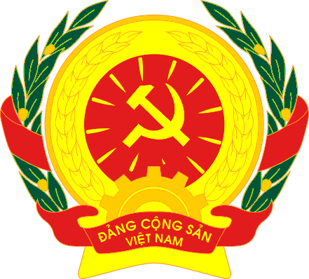 Emblem of the Communist Party of Vietnam